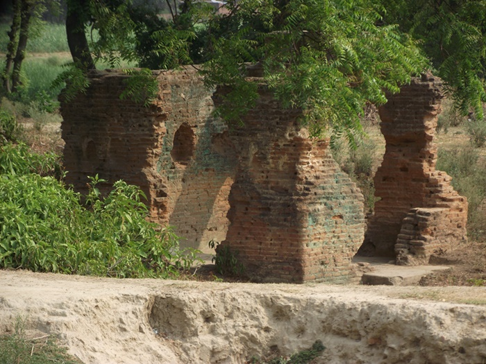 Gadh Deveshwer Mahadeo Temple made by Raja Lone Singh of Mitauli before Mutiny 1857